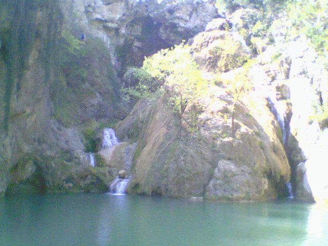 The waterfall next to village Hotnica